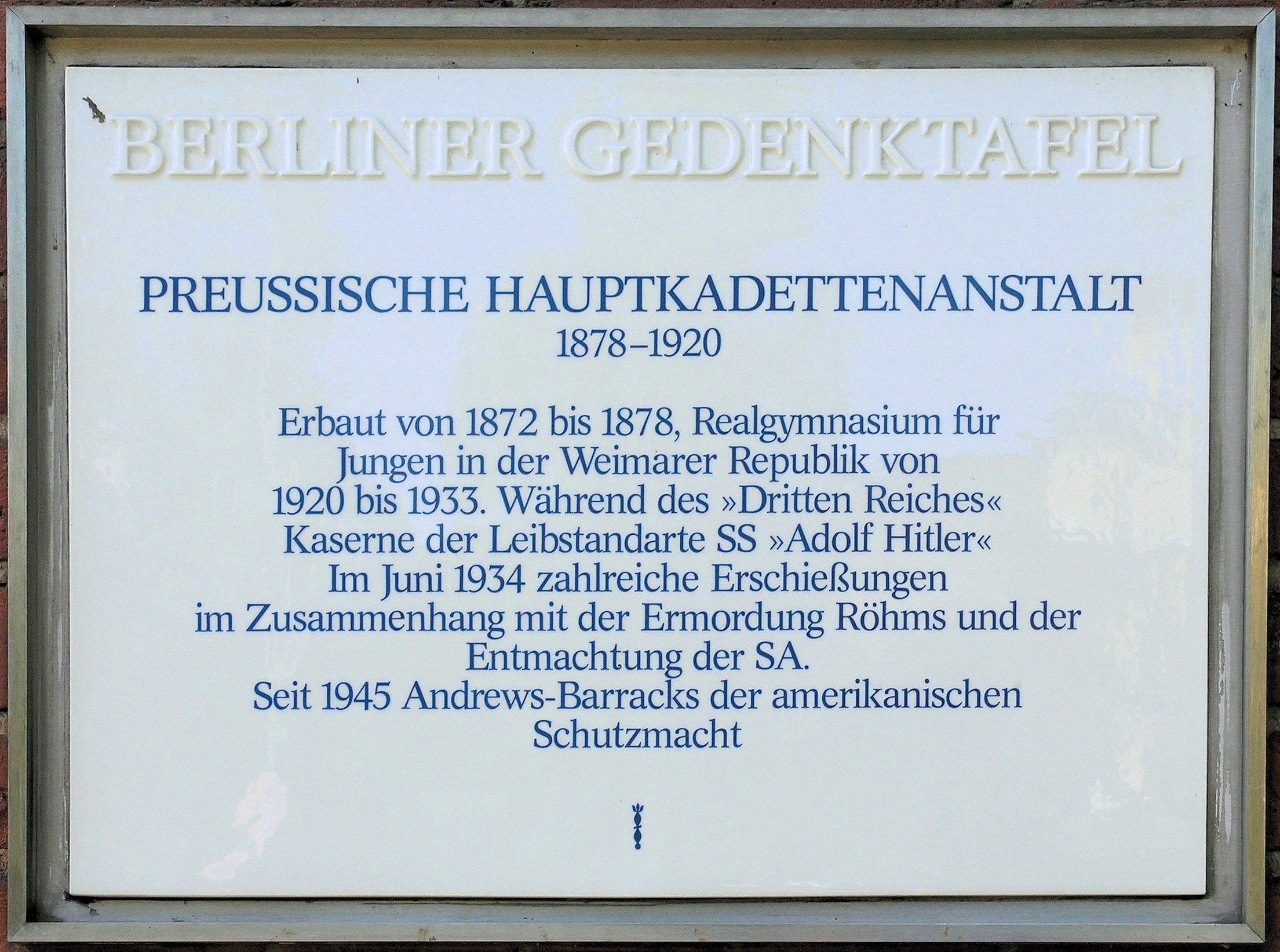 Berlin memorial plaque Preussische Hauptkadettenanstalt, Finckensteinallee 63-87, Berlin-Lichterfelde, Germany Koordinate:52°25′56.6″N 13°17′56.1″E / 52.432389°N 13.298917°E